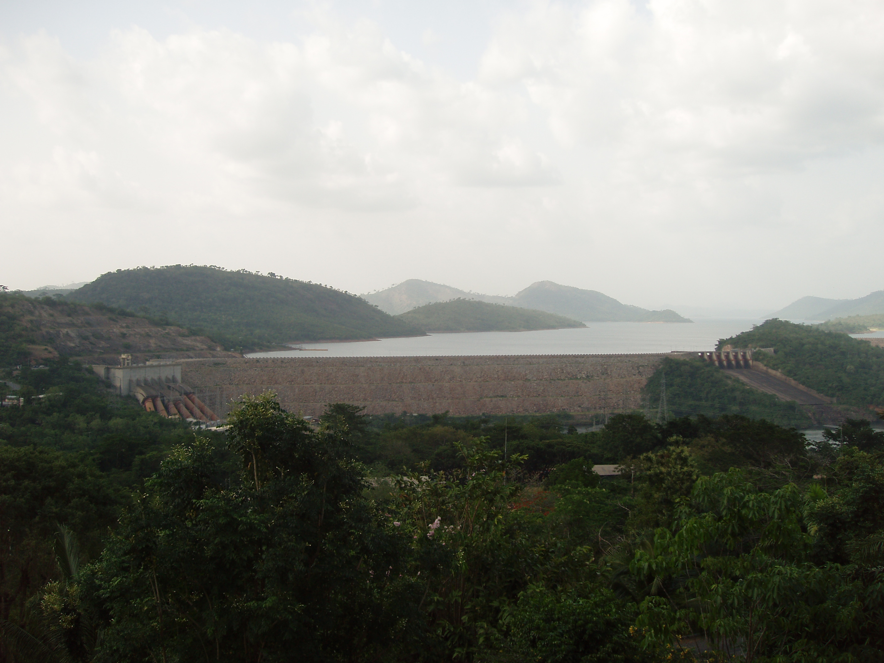 Akosombo Dam, Ghana